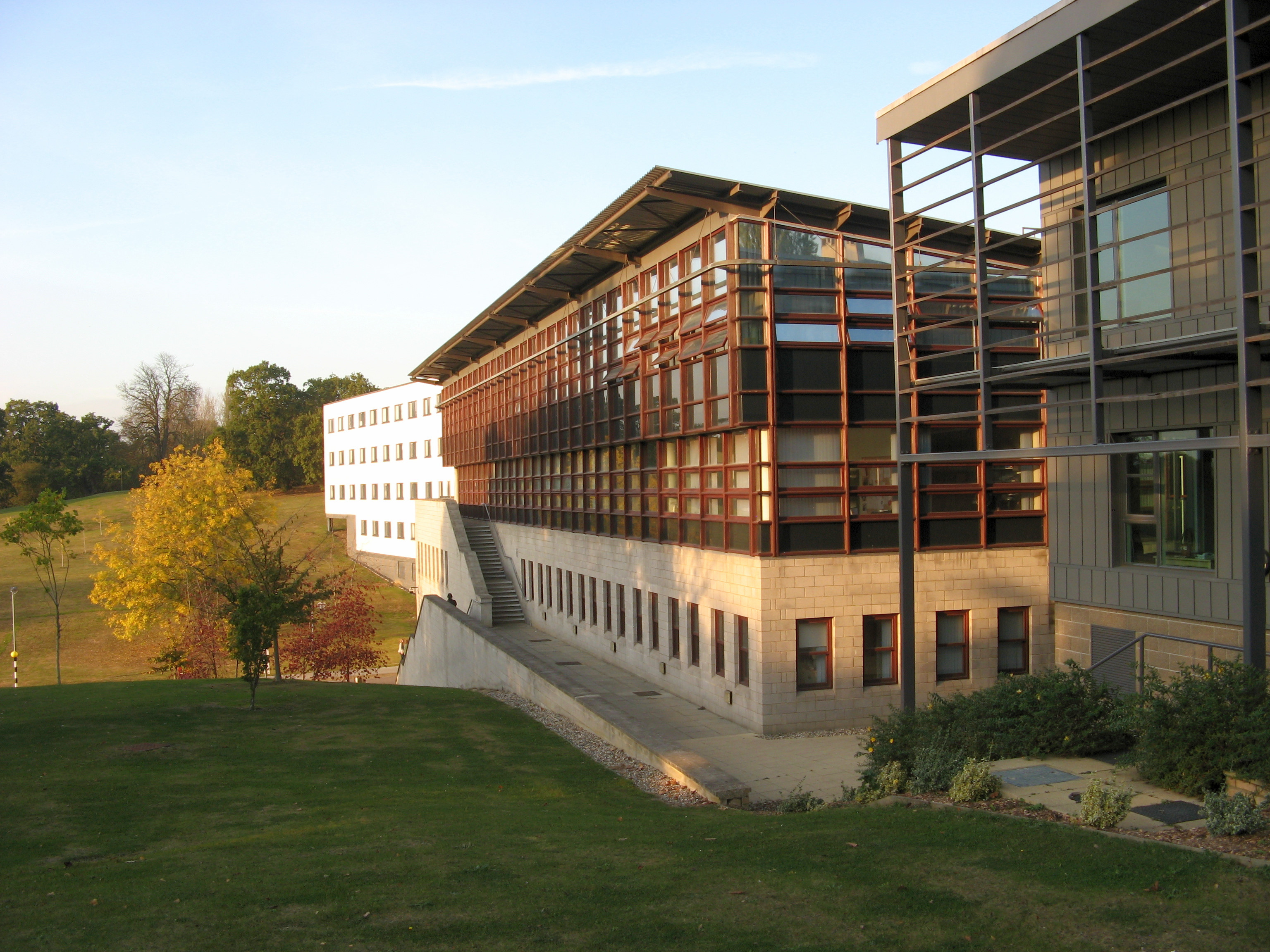 Main Psychology building, University of Essex. On the right is part of the Psychology building extension, and to the left in the distance is the white Networks Centre housing Computer Science and others.